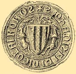 Seal of János Németujvári Kakas